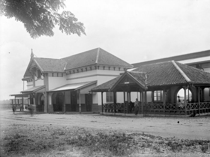 Railwaystation Delangu of the Dutch Indies Railway Company (N.I.S.)